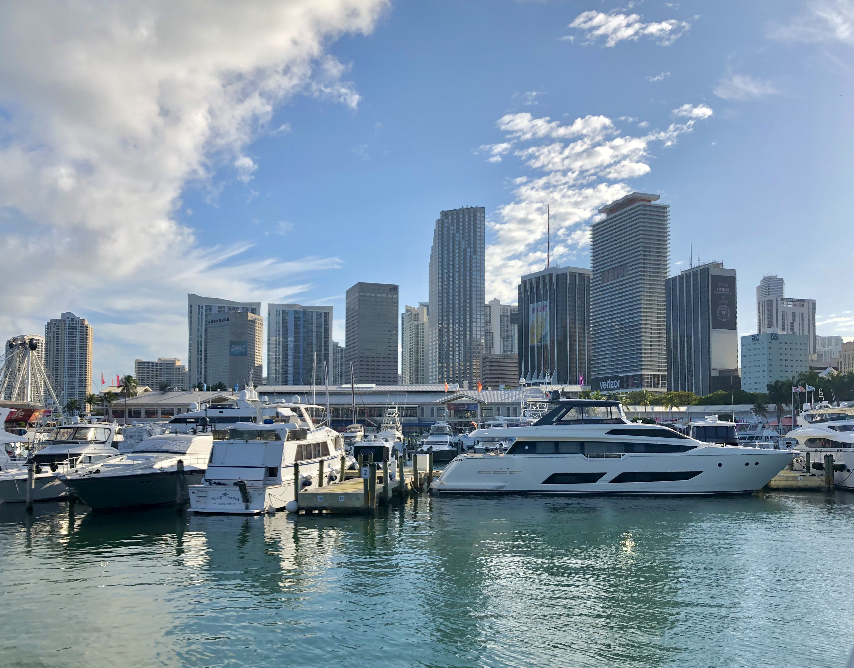 View of the lower Miami skyline from Bayfront Park in February 2020. Photo by Chris6d.